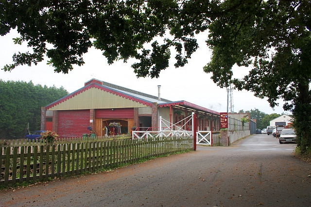 The Pallot Steam, Motor & General Museum. The museum is named after the founder, the late Lyndon Charles Pallot. It contains a fascinating collection of steam, farm and other machinery, motor vehicles, vintage bicycles, a variety of organs. The Engine Shed and Victorian Style Station Platform seen here were officially opened on Liberation Day 1996.